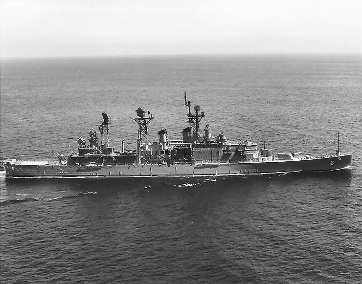 The U.S. Navy guided missile cruiser USS Providence (CLG-6) underway on 6 June 1966.